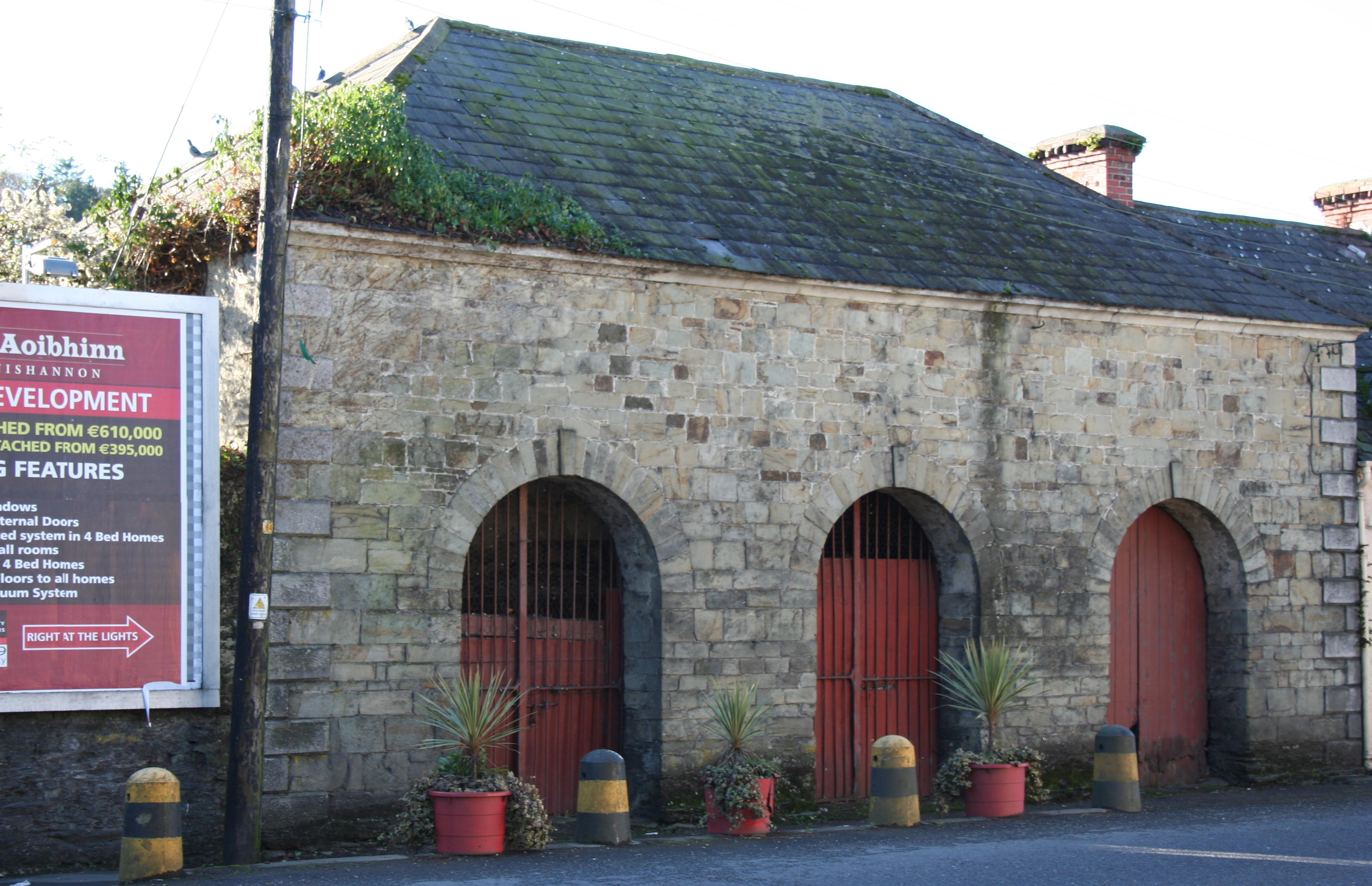 The Market House Innishannon, County Cork Credit: A Peter Clarke image